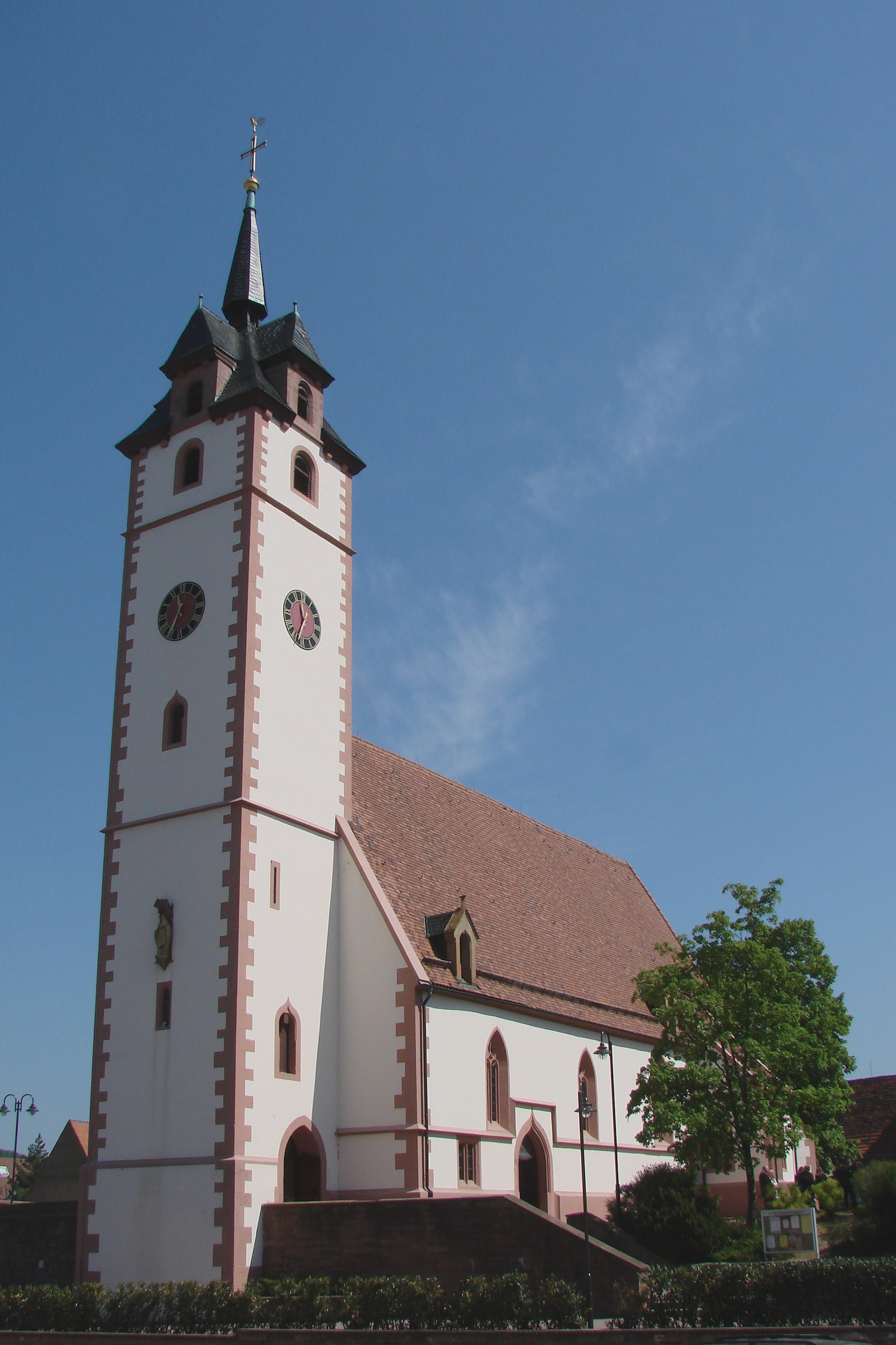 Niefern-Öschelbronn, protestant parish church, choir about 1350, main nave completed 1490